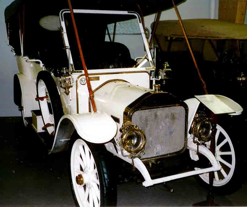 Wolseley-Siddeley Tourer 1908